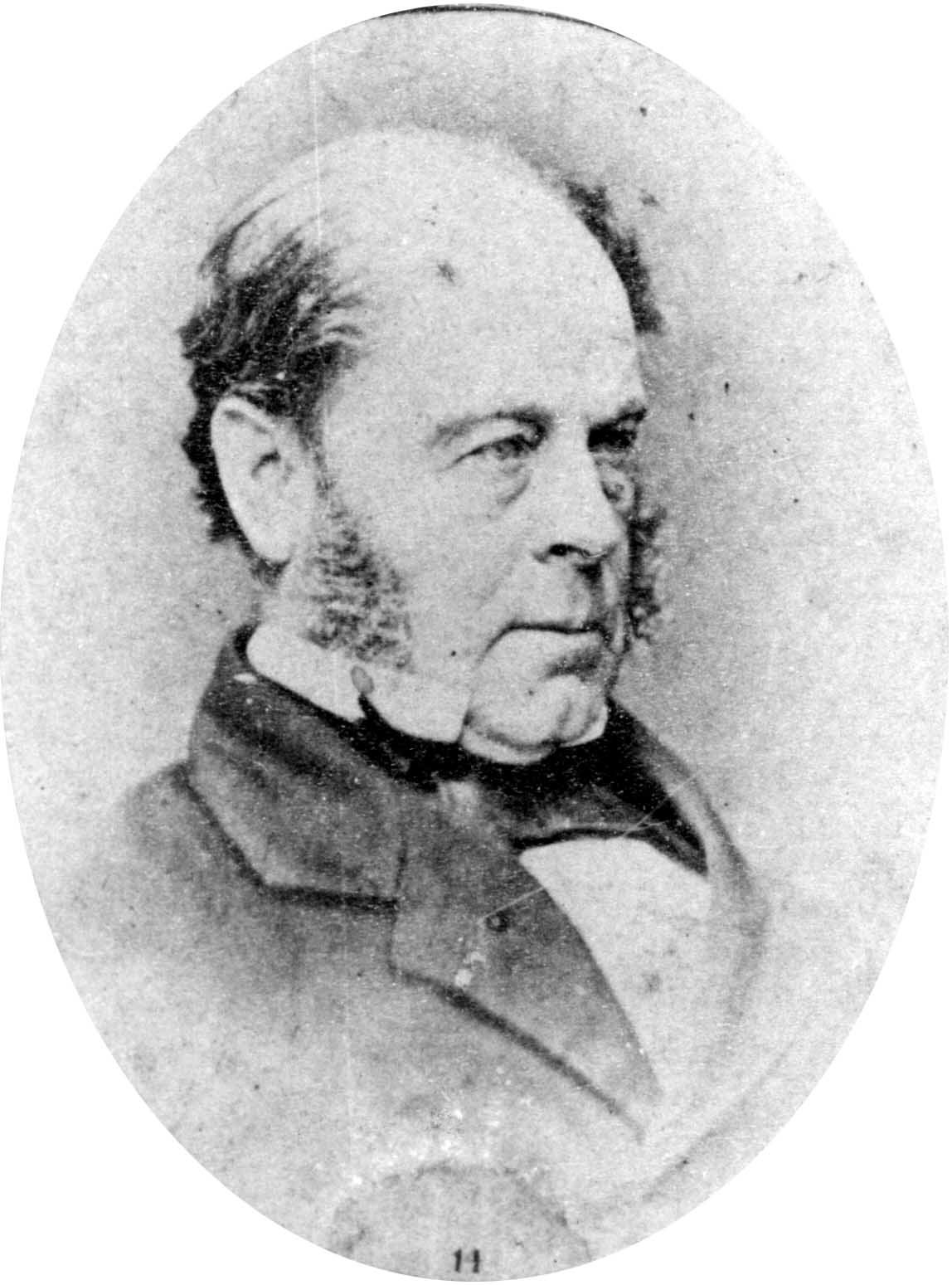 Alexander Walker Scott (1800–1883), Australian entomologist